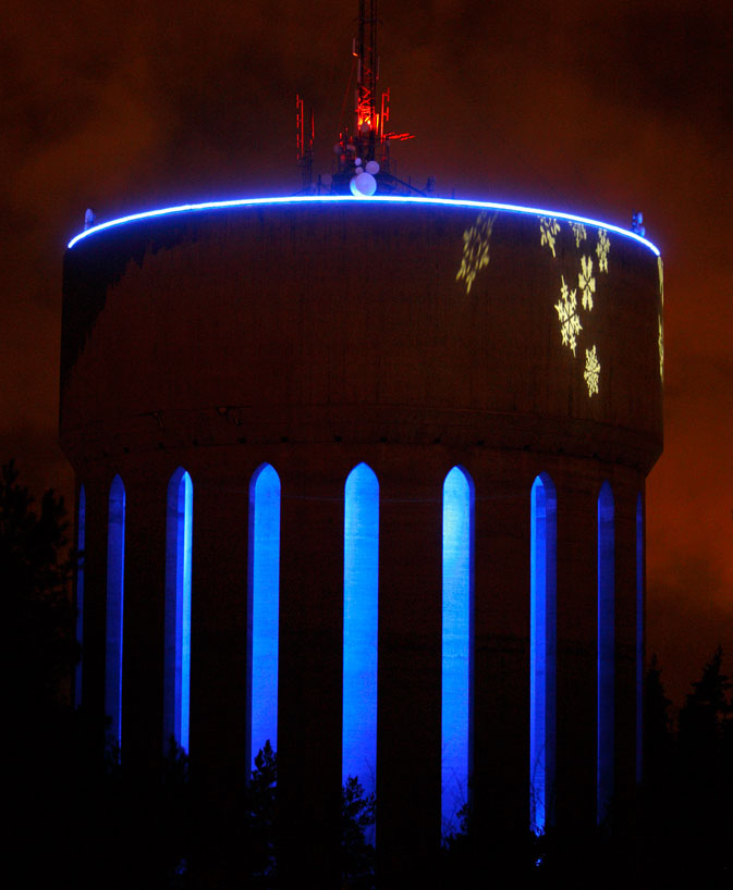 picture of Linköpings watertower.